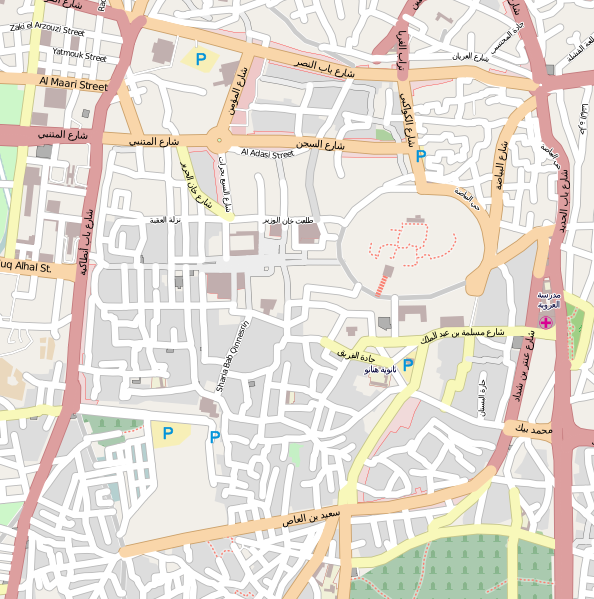 Map of the Ancient City of Aleppo district in contemporary Aleppo, northern Syria. Geographic limits of the map: N: 36.20649 S: 36.188929° W: 37.14928° E: 37.168767°